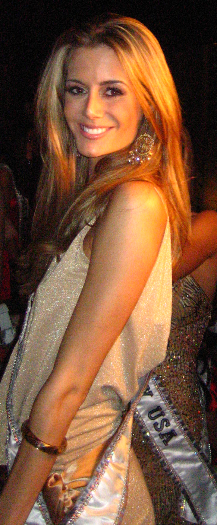 Brittany Mason, Miss Indiana USA 2008, attends a sponsor party at the Sedona lounge in Las Vegas, Nevada prior to the Miss USA 2008 pageant.